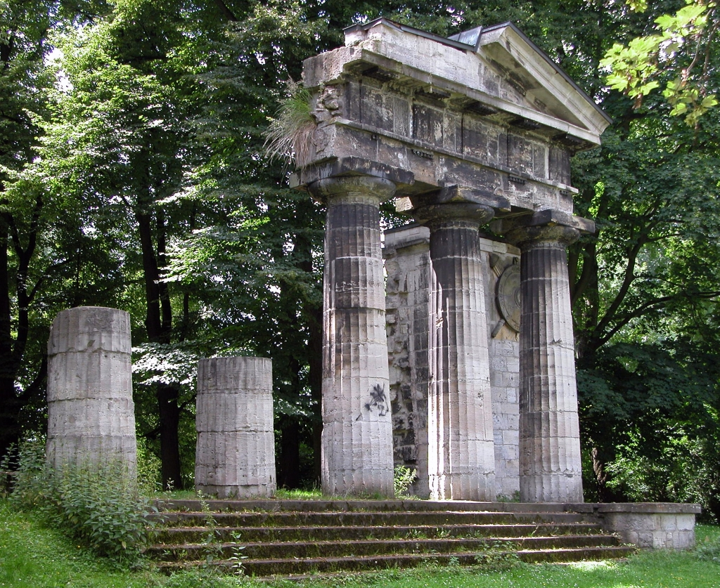 Braunschweig, Germany: Portico by Peter Joseph Krahe in the Bürgerpark (Citizens’ Park).